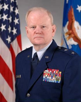 Charles E. Tucker, Jr. Official U.S. Air Force Photo